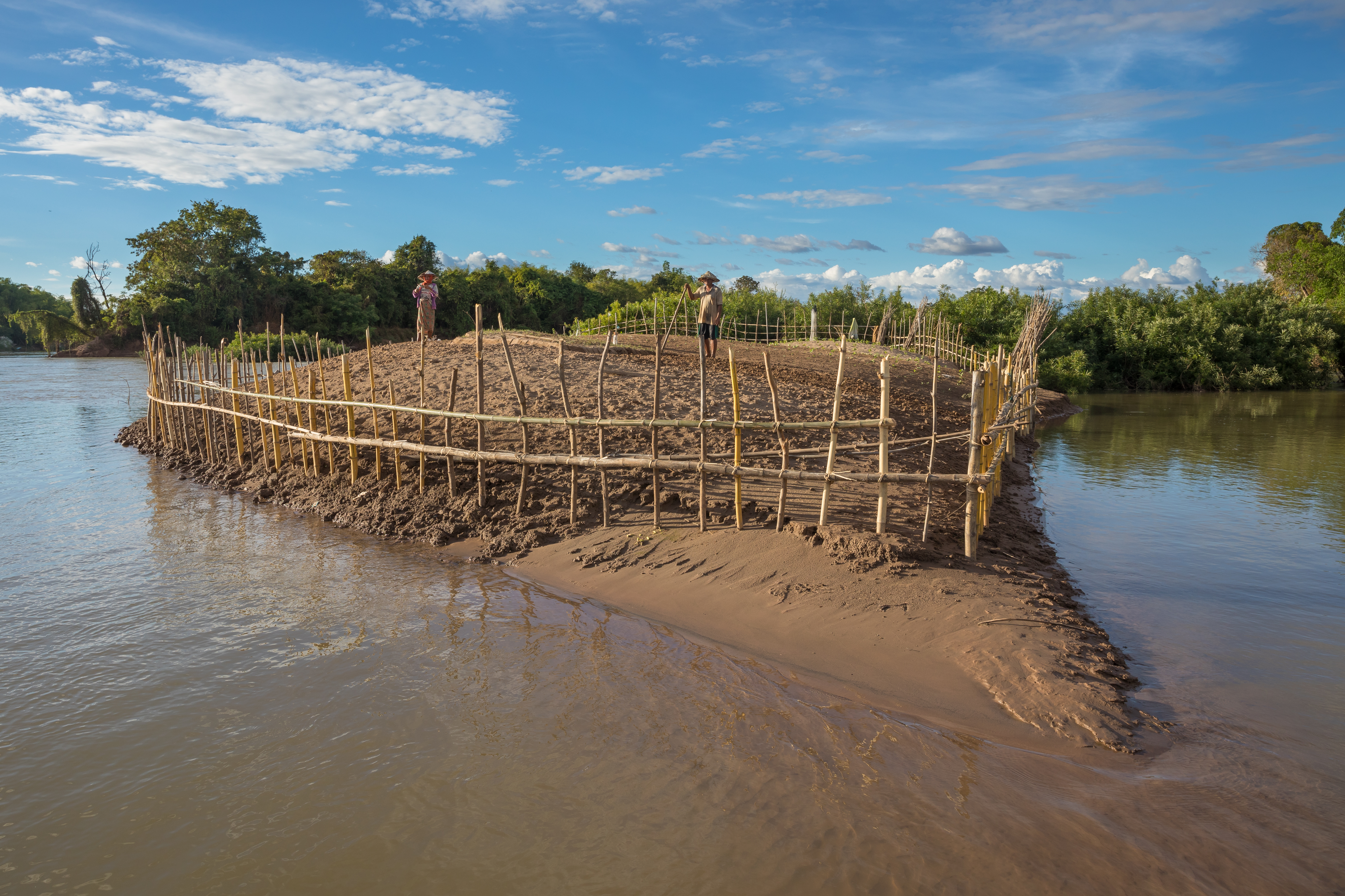 Wooden fence around a tiny cultivated island near Don Loppadi (Si Phan Don - 4000 islands, Laos), with a couple working at golden hour. The fence is a protection to prevent intruders from cultivating the same land. This small ground certainly doesn't belong to anyone officially, or the official owner just doesn't care. Since this tiny island is totally submerged during the monsoon, the first locals who decide to settle there after the recession of the Mekong need to give a clear signal to the neighborhood that the domain is not available anymore.